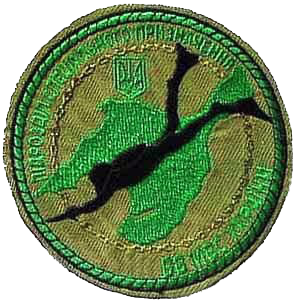 The emblem of the special unit "Skat"